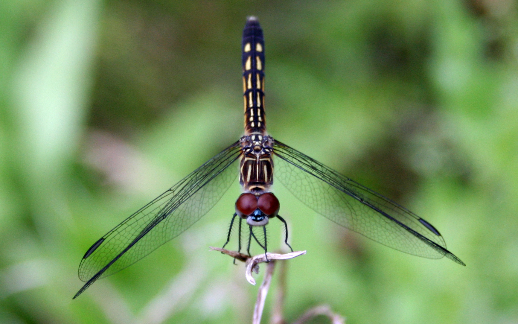 Anisoptera (Dragonfly), Pachydiplax longipennis (Blue Dasher), female, photographed in the Town of Skaneateles, Onondaga County, New York. [1]